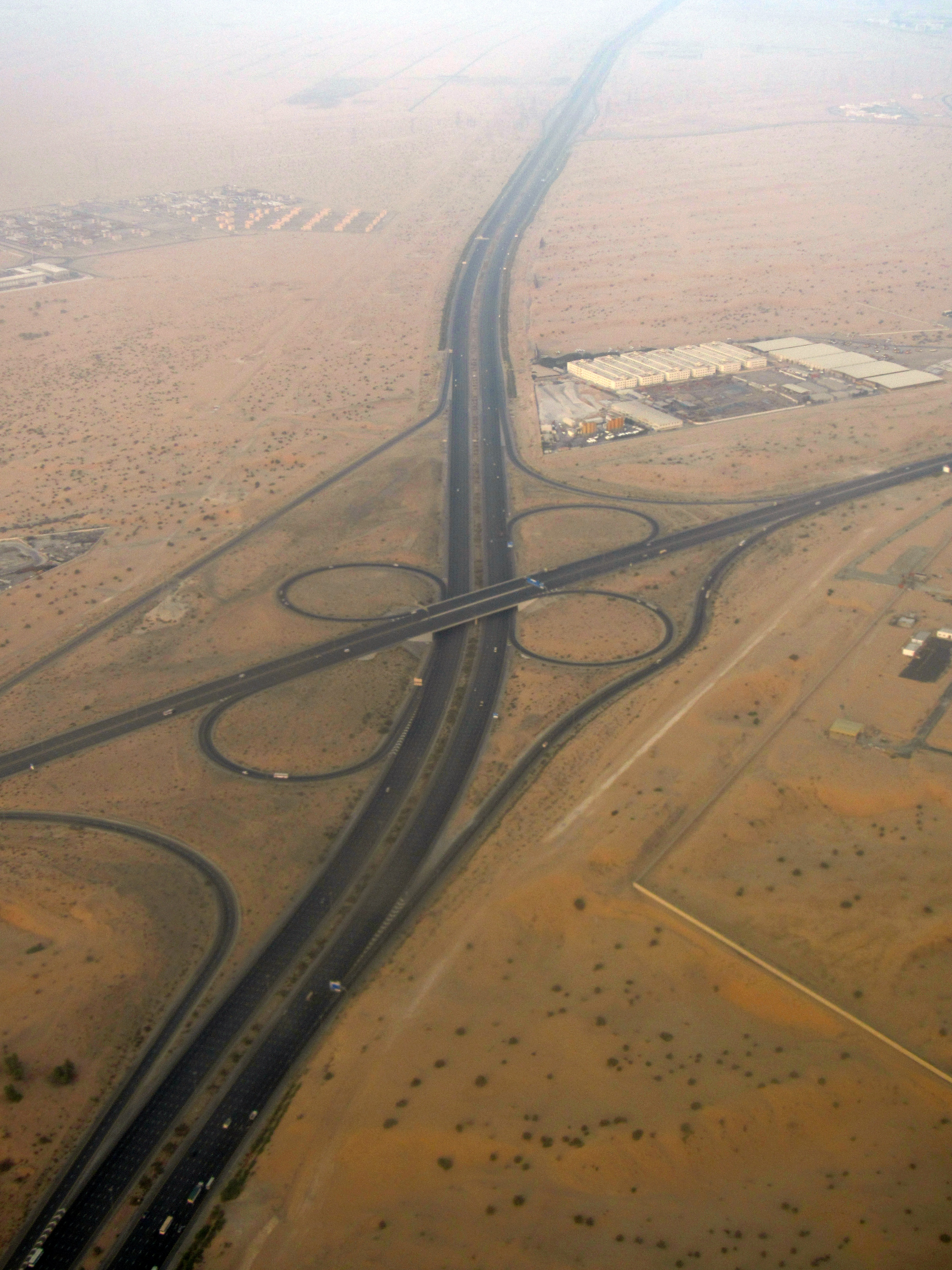 Aerial photograph highways E611 (top-bottom) and E44 (left-right) in Dubai, UAE.